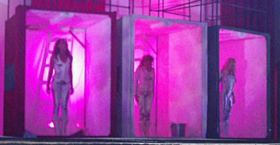 Photo taken from The Cheetah Girls' Christmas concert tour.